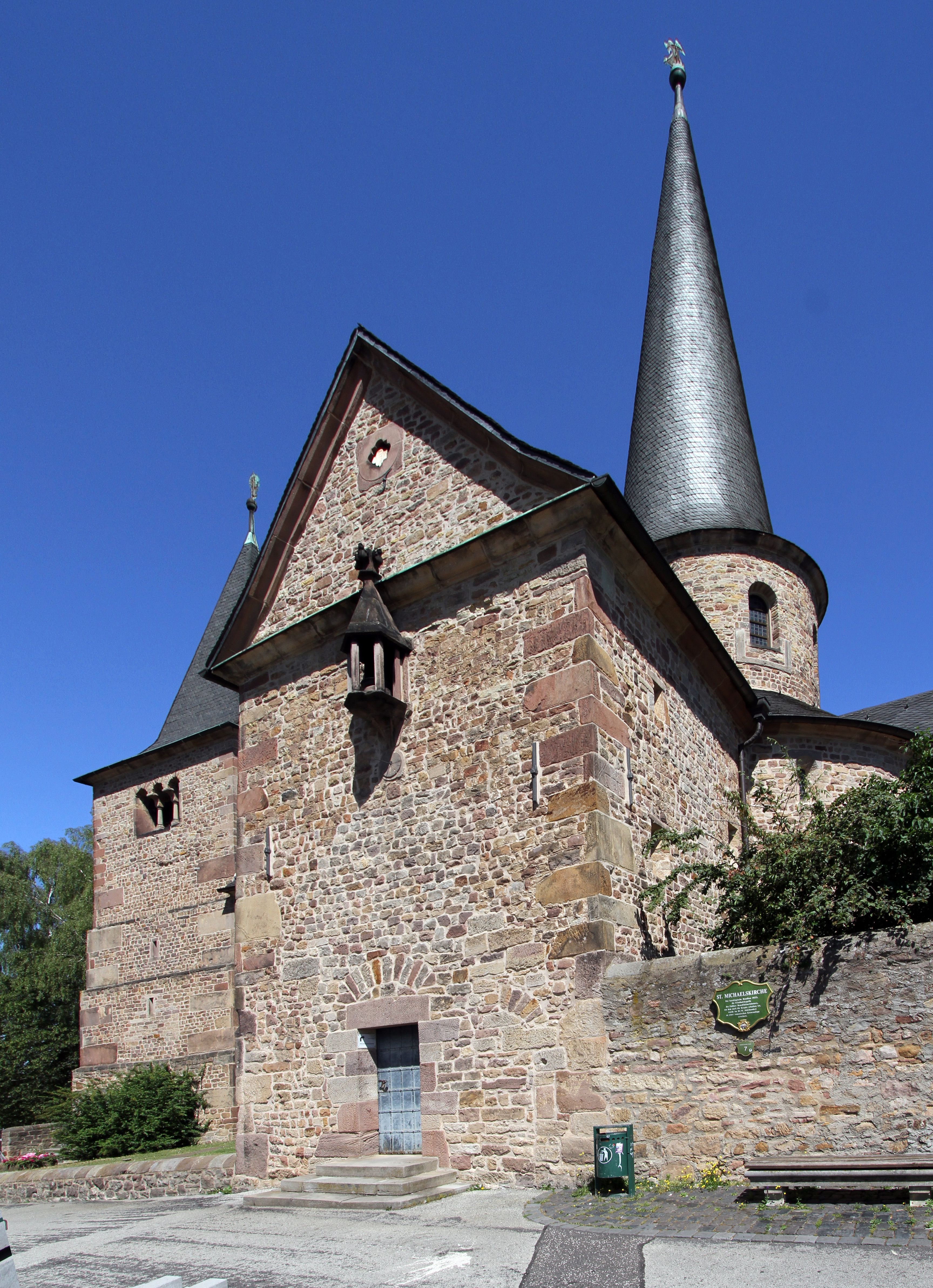 Church of Saint Michael in Fulda.